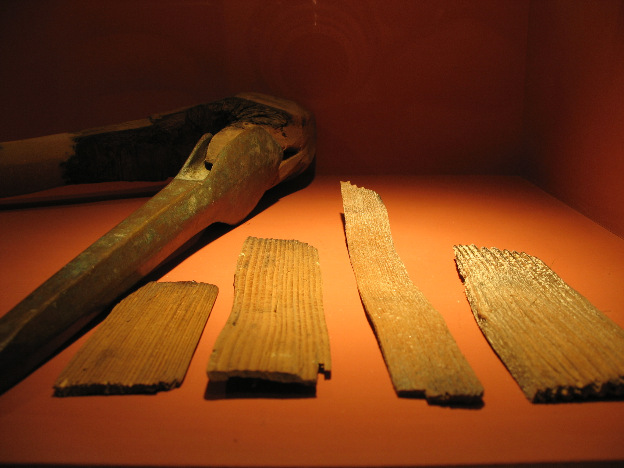 Pickaxe for salt mining from the Hallstatt culture. Museum Hallstatt, Austria